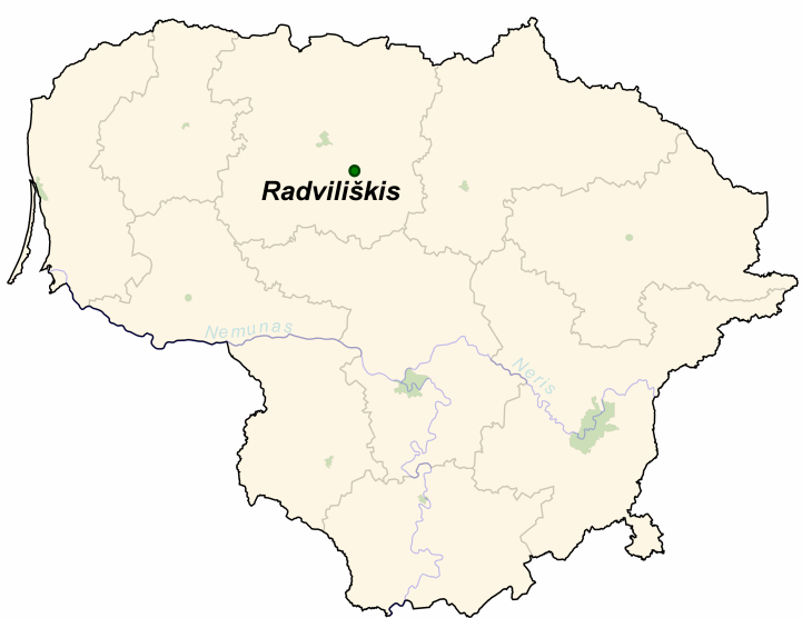 Radviliškis on the map of Lithuania